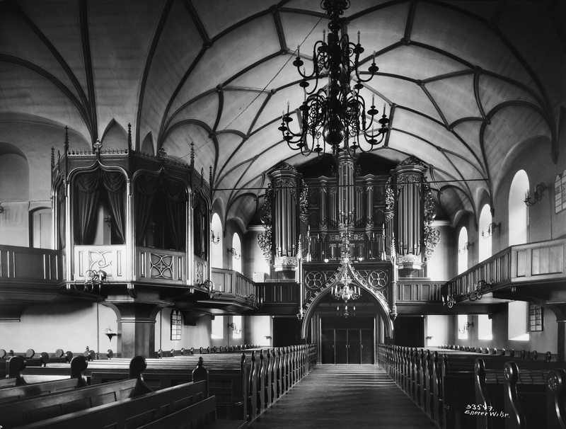 The interior of Oslo Cathedral (Oslo Domkirke/Vår Frelsers kirke) photographed in 1929 with Alexis de Chateauneufs design from 1848–1850. Organ by Lambert Daniel Kastens